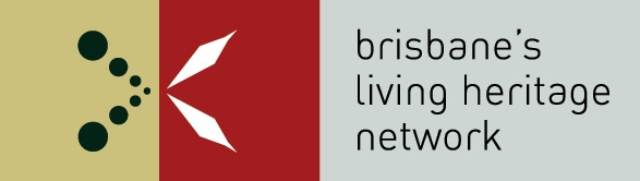 Brisbane's Living Heritage Network organisation logo